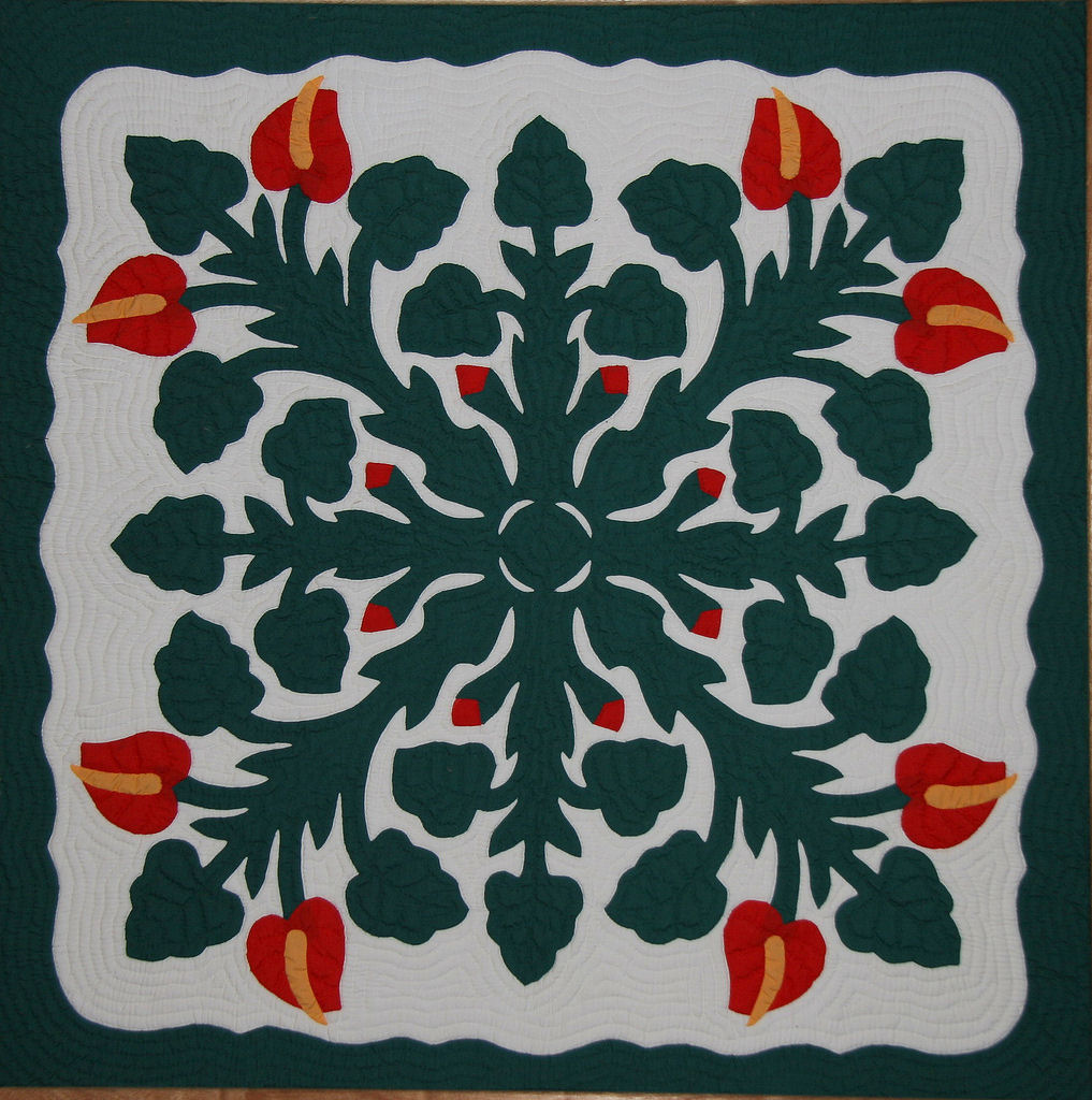 Exposure-corrected copy of Image:Hawaiian_Applique_Quilt.jpg. Original Flickr description: These authentic Hawaiian tapestries are hanging in the lobby of our hotel (Kauai Sands).